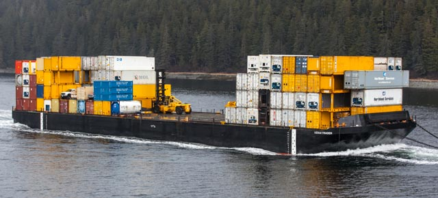 I took these photos on the ferry Columbia from Haines to Bellingham in early April 2013; what a great trip! The ferry wasn't crowded and we had decent weather for a lot of the trip. I'll never forget how flipping awesome Alaska is - I do miss it every day and can't wait to get back to visit! The trip took 4 days, the food was good, and one of the best parts was that the government paid for it!!!